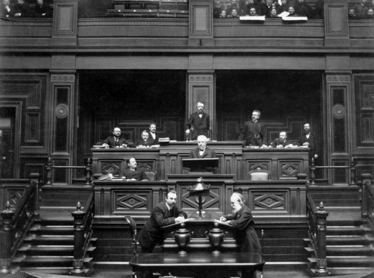 Inside the Reichstag in Leipziger Street 4 (parliament)